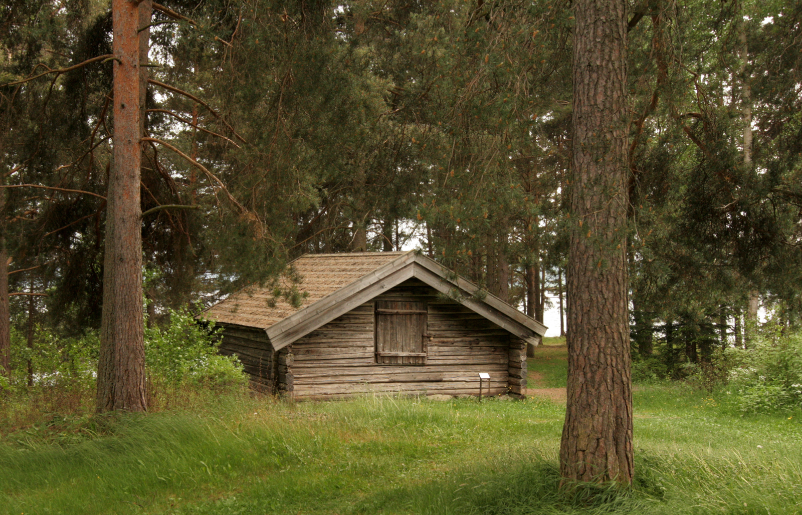 Hay shed from Størigarden upland pastures, Hedmark, Norway. Built late 19th C. Today at Hedmarksmuseet open-air museum, Hamar, Norway.